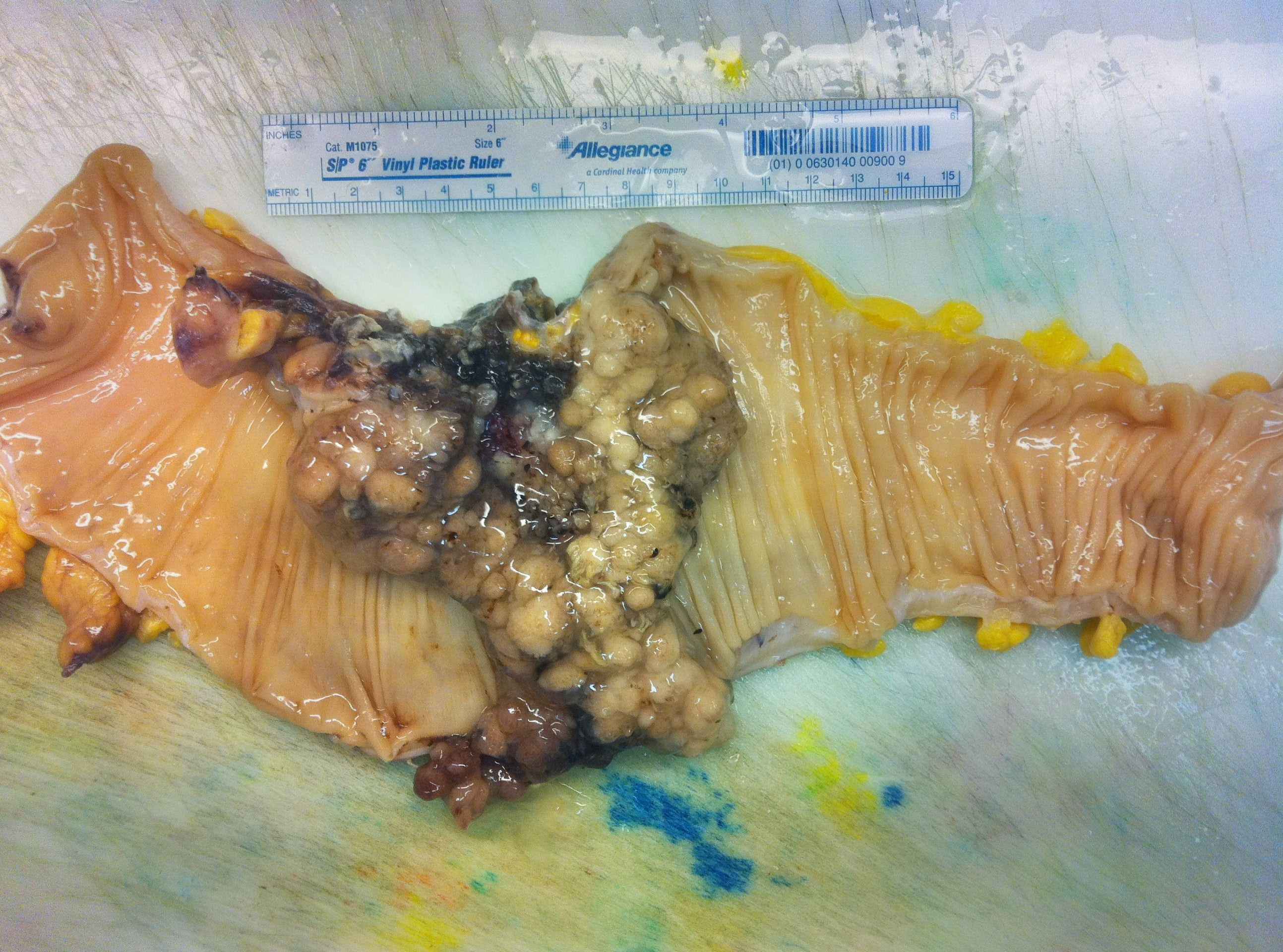 The patient, a middle-aged woman, presented with colon perforation and paracolonic abscess. Diagnosis was made at laparotomy.